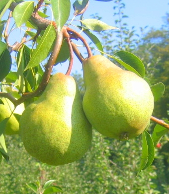 Fruits of Packhams Triumph pear